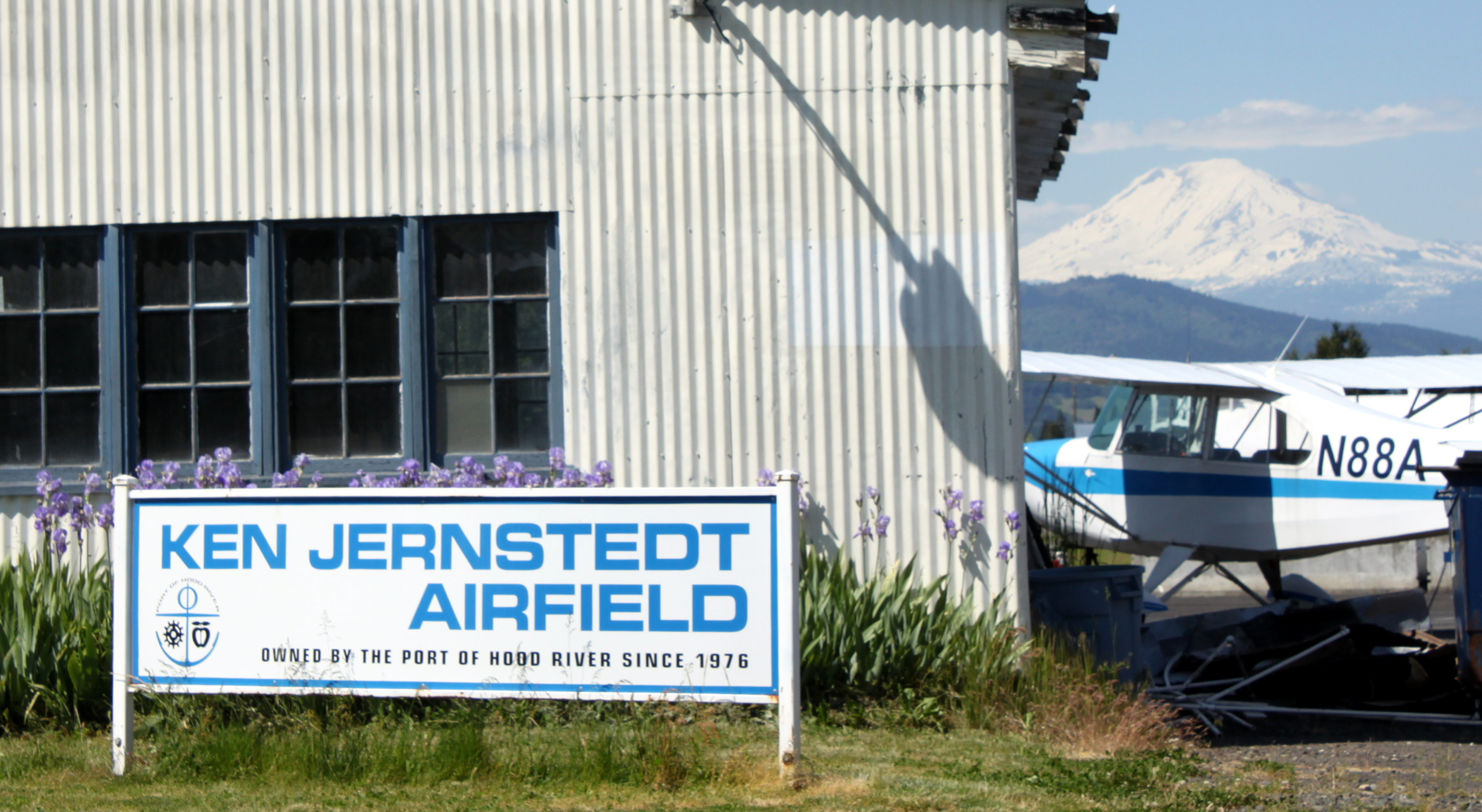 Ken Jernstedt Airfield near Hood River, Oregon with Mount Adams (Washington) in the background.